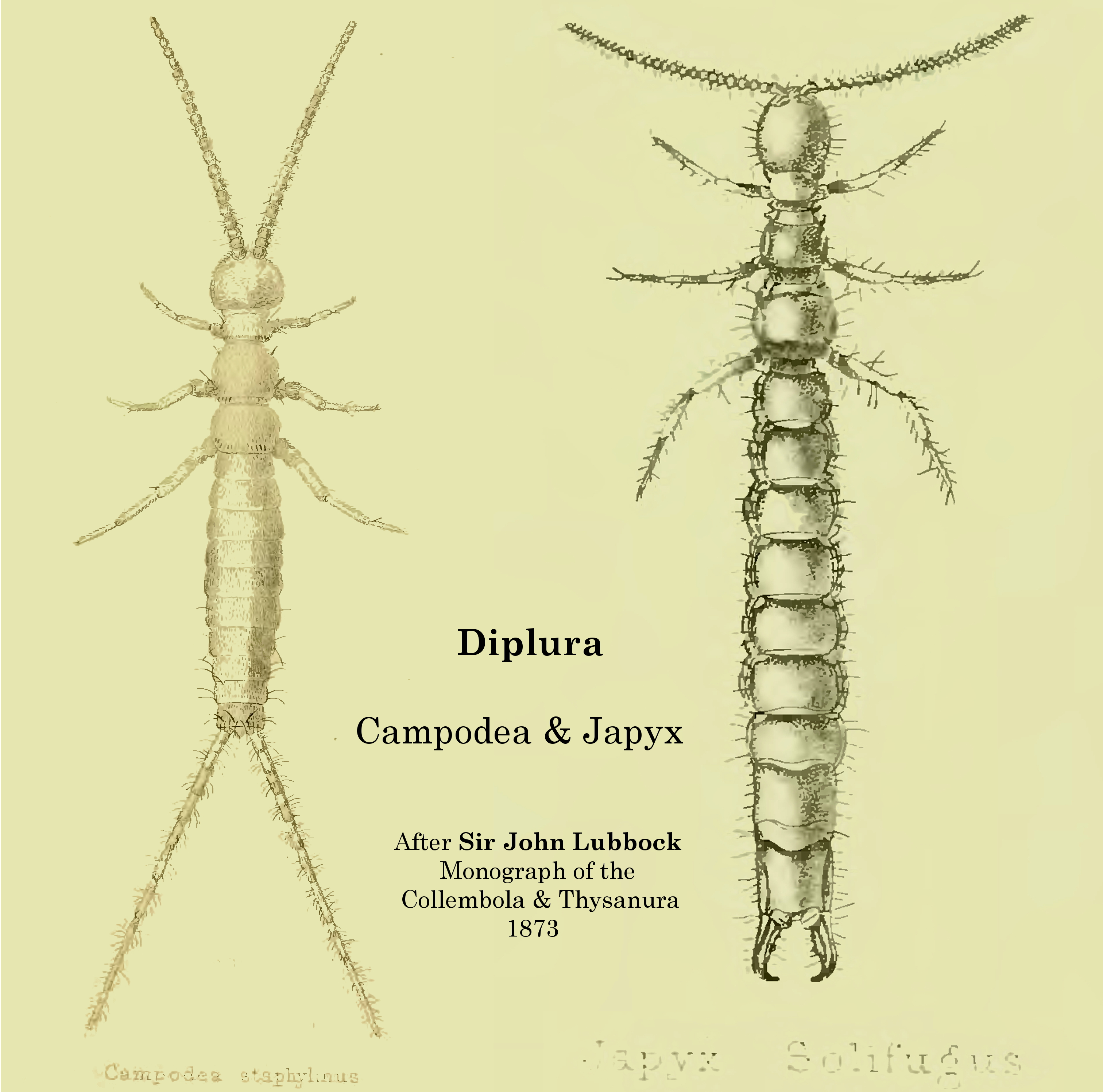 Order Diplura showing the two main forms, Campodea and Japyx